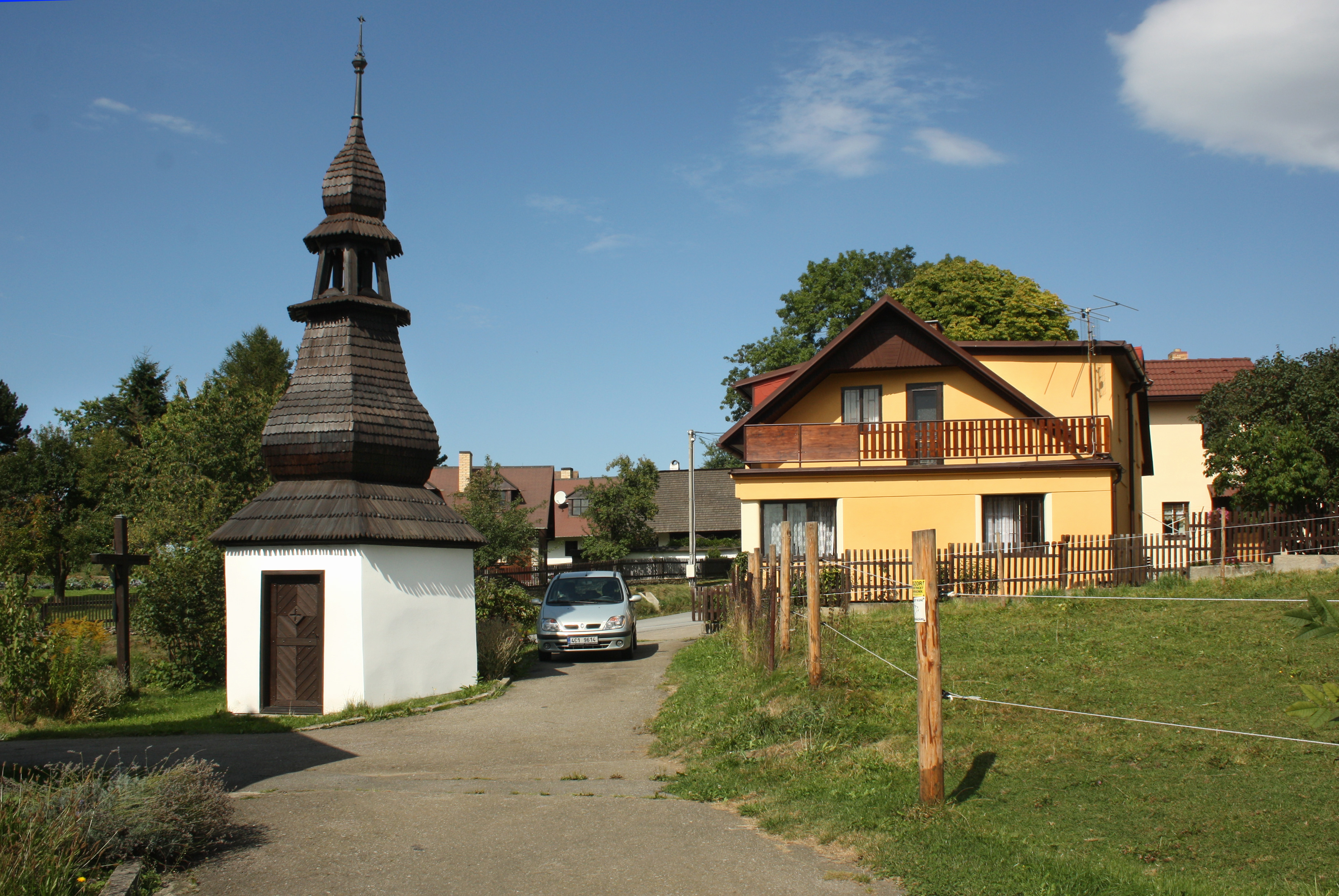 Small chepel in Mladíkov, part of Vacov, Czech Republic